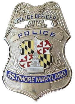 Badge of the Baltimore Police Department for the rank of Police Officer